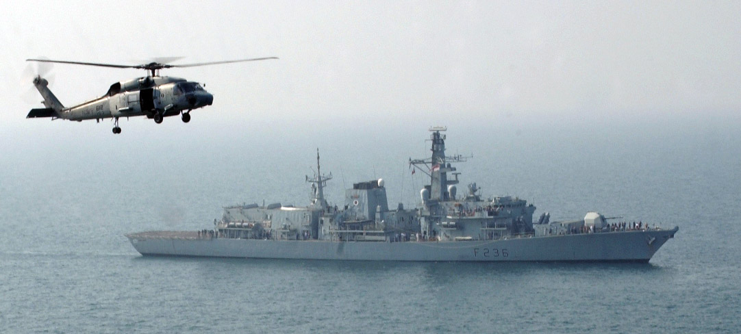 051210-N-5832A-006: Persian Gulf (10 December 2005) - The British Royal Navy frigate HMS Montrose comes along side the Nimitz class aircraft carrier USS Theodore Roosevelt. United States Navy photo by Photographer's Mate Airman Derek Allen (RELEASED).